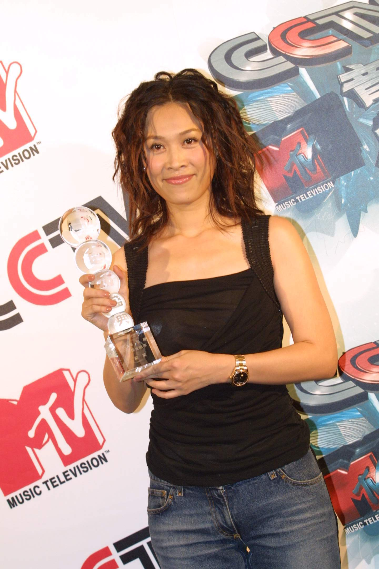 Chinese singer Na Ying attended a CCTV-MTV music award ceremony in Beijing in July 2002.